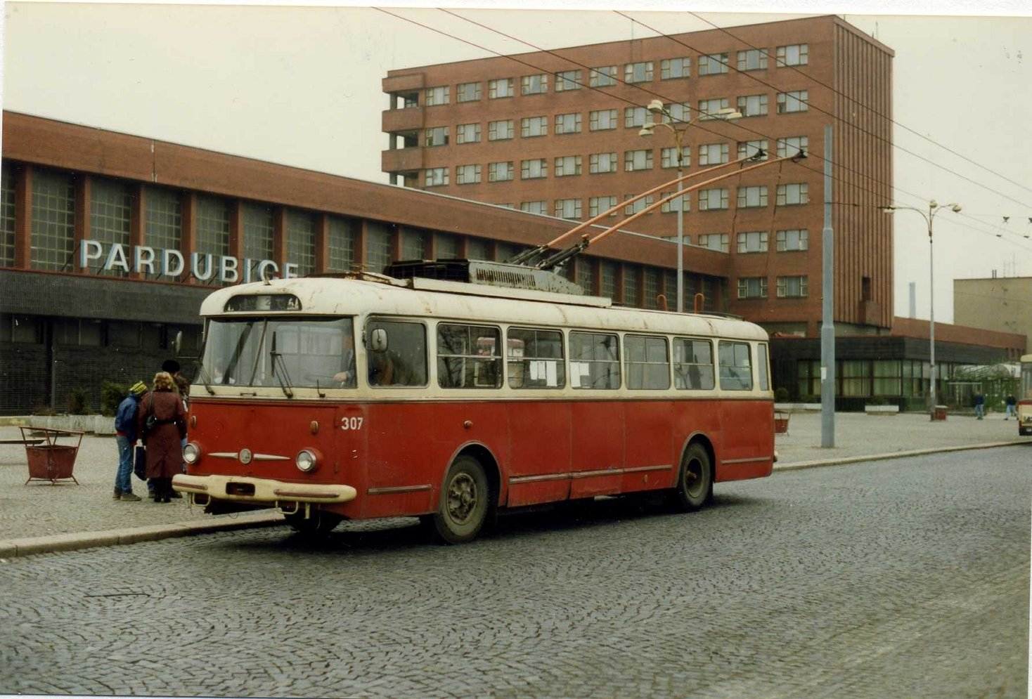 Škoda 9Tr trolleybus in Pardubice, Czech Republic